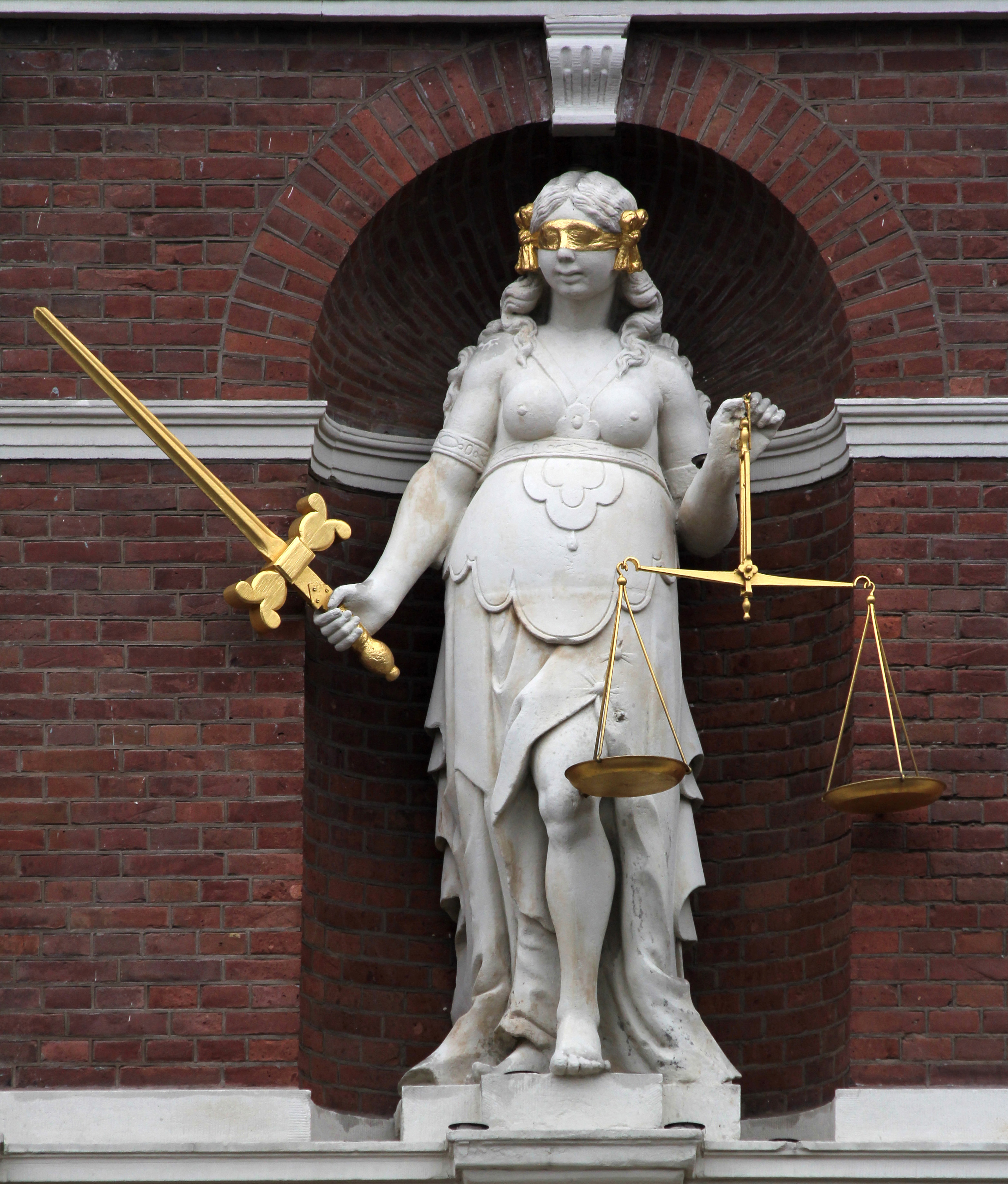 Statue of Justice at Haarlem City Hall, Netherlands.